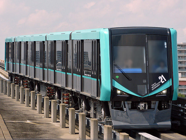 Toei 320 series EMU set 21 on the Nippori-Toneri Liner between Ogi-Ohashi and Adachi-Odai Stations